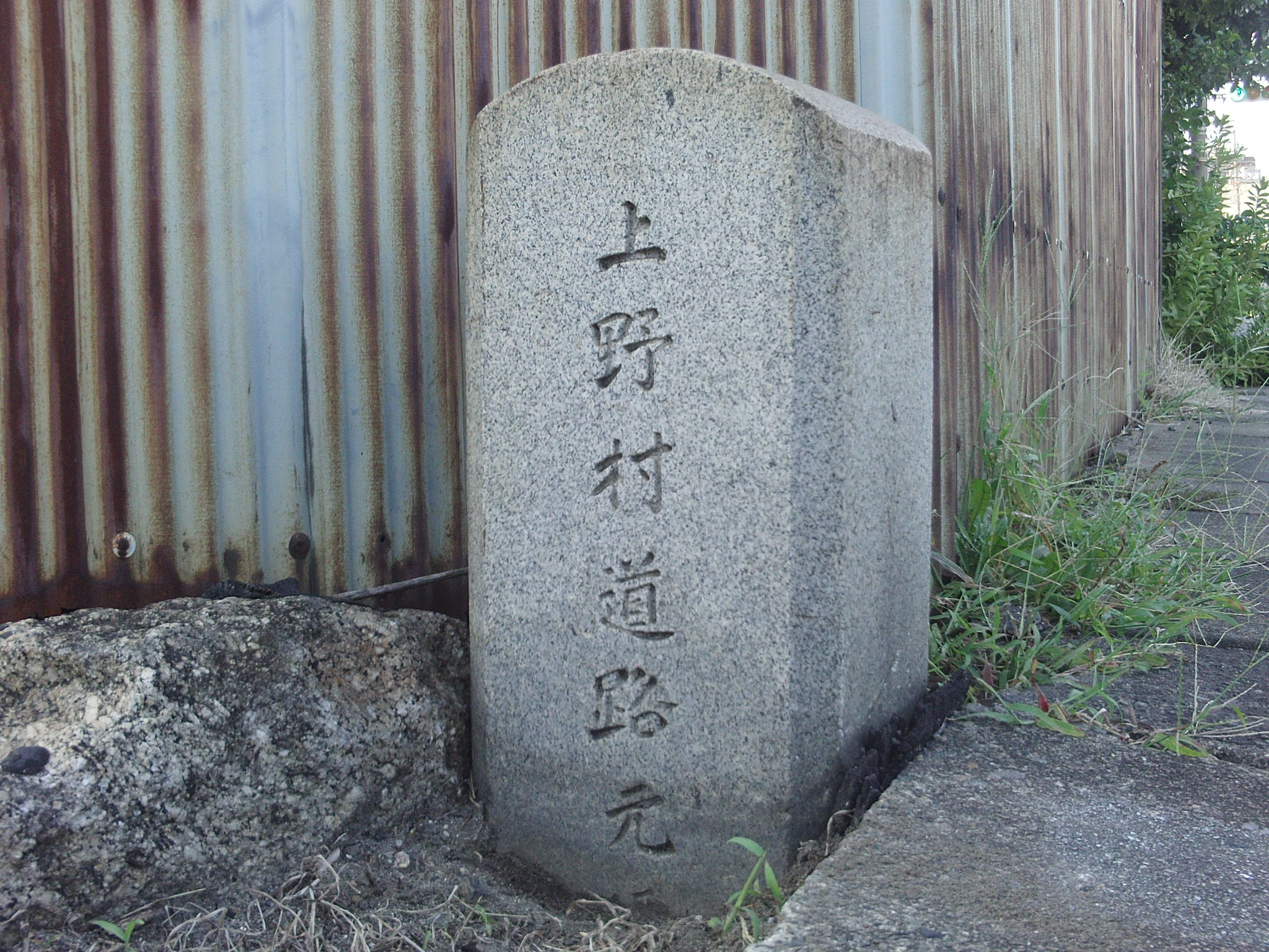 Kilometre zero of Ueno village. (Ueno village, Chita-gun, Aichi.)